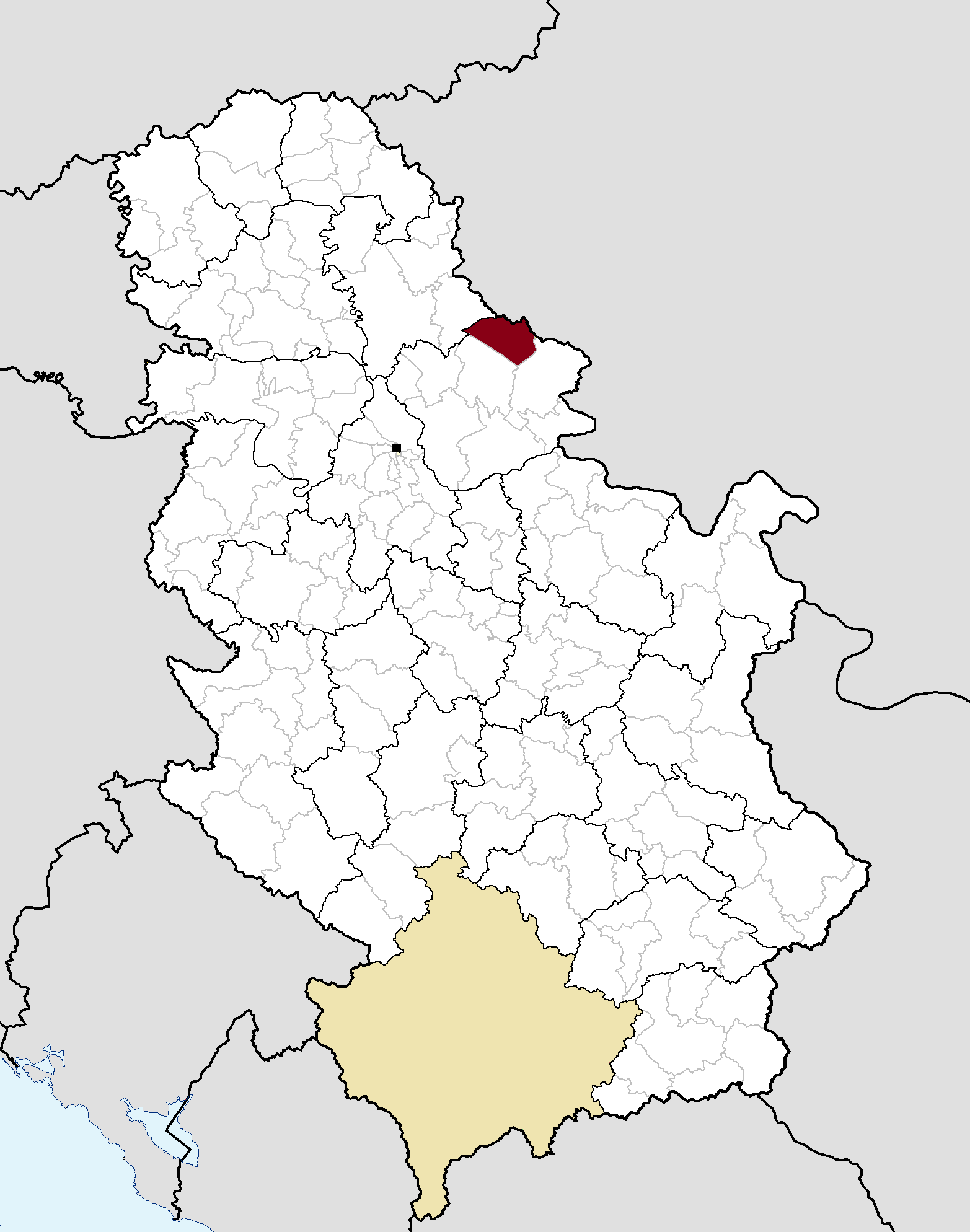 Municipal location in Serbia